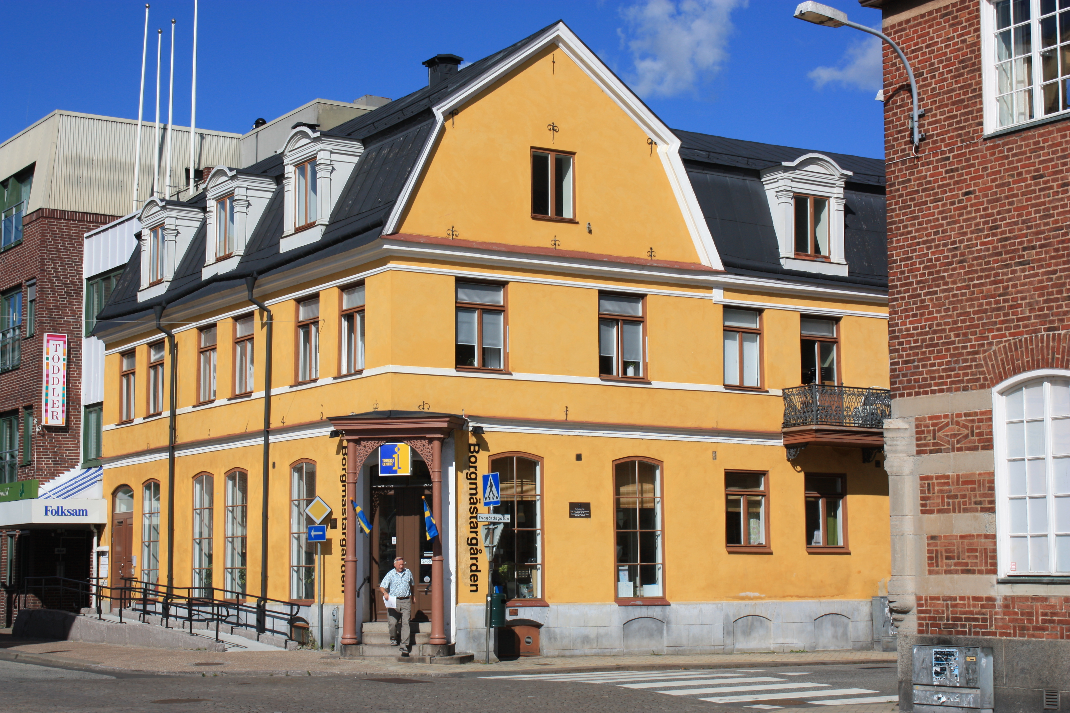 Mayors' yard at Stora torg, Kristianstad